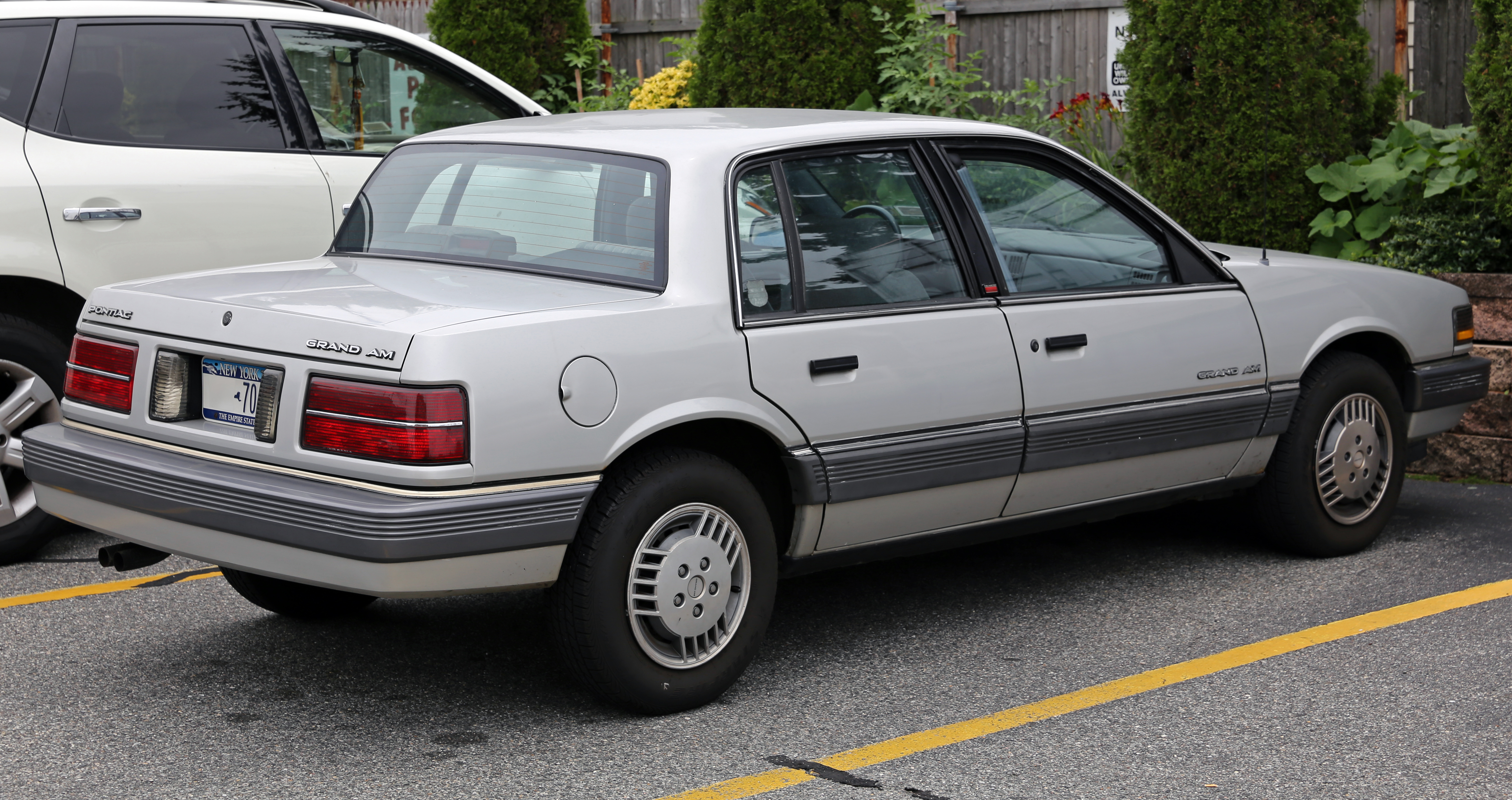 Rear view of 1987 Pontiac Grand Am four-door sedan (base), in surprisingly good shape - especially for a New York car. 3.0 V6 engine and automatic belts; built in Lansing, MI.